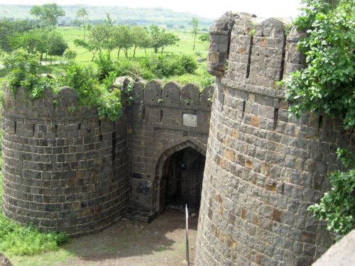 Kharda Fort Located in Kharda